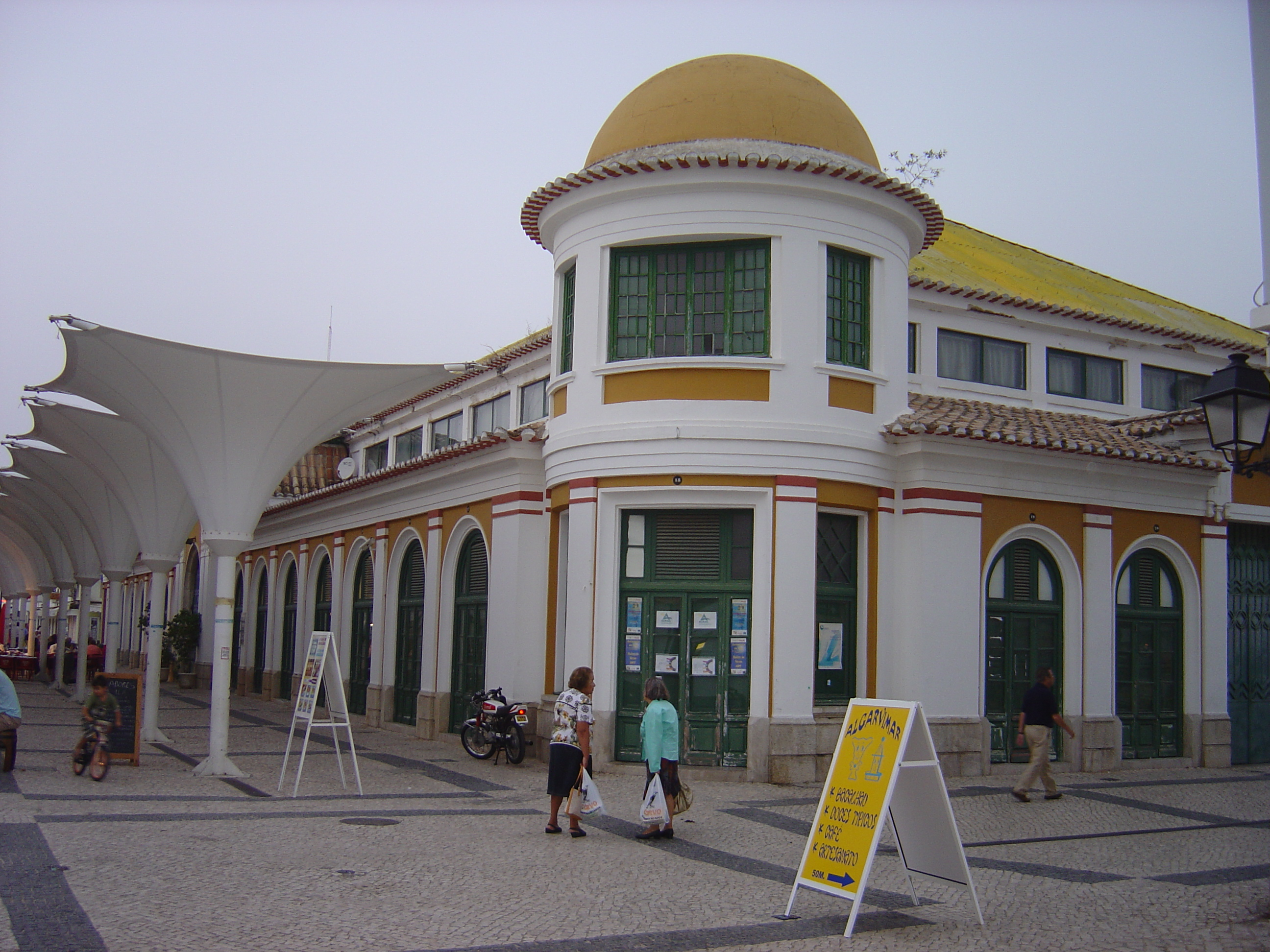 The south west corner of the old Mercado Municipal which is lo on the intersection of Rua 5 de Outubro and Rua Almirante Cândido dos Reis in the town of Vila Real de Santo António, Algarve, Portugal.This building is now multipurpose space of cultural activities and exhabitions and has a large auditorium.